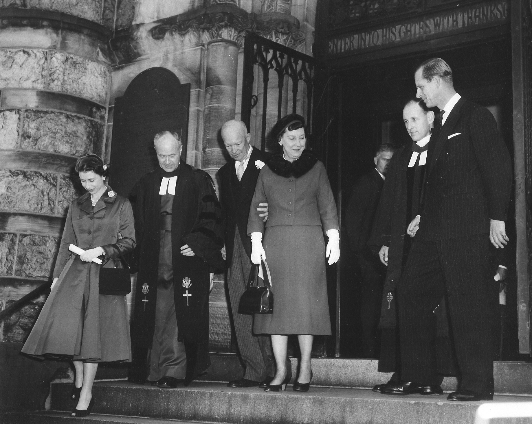 US President and First Lady accompany British royal family on a visit to National Presbyterian Church, 1957 - L to R: Queen Elizabeth II, Dr. Elson, President Eisenhower, Mamie Eisenhower, Associate Minister John Edwards and Prince Philip